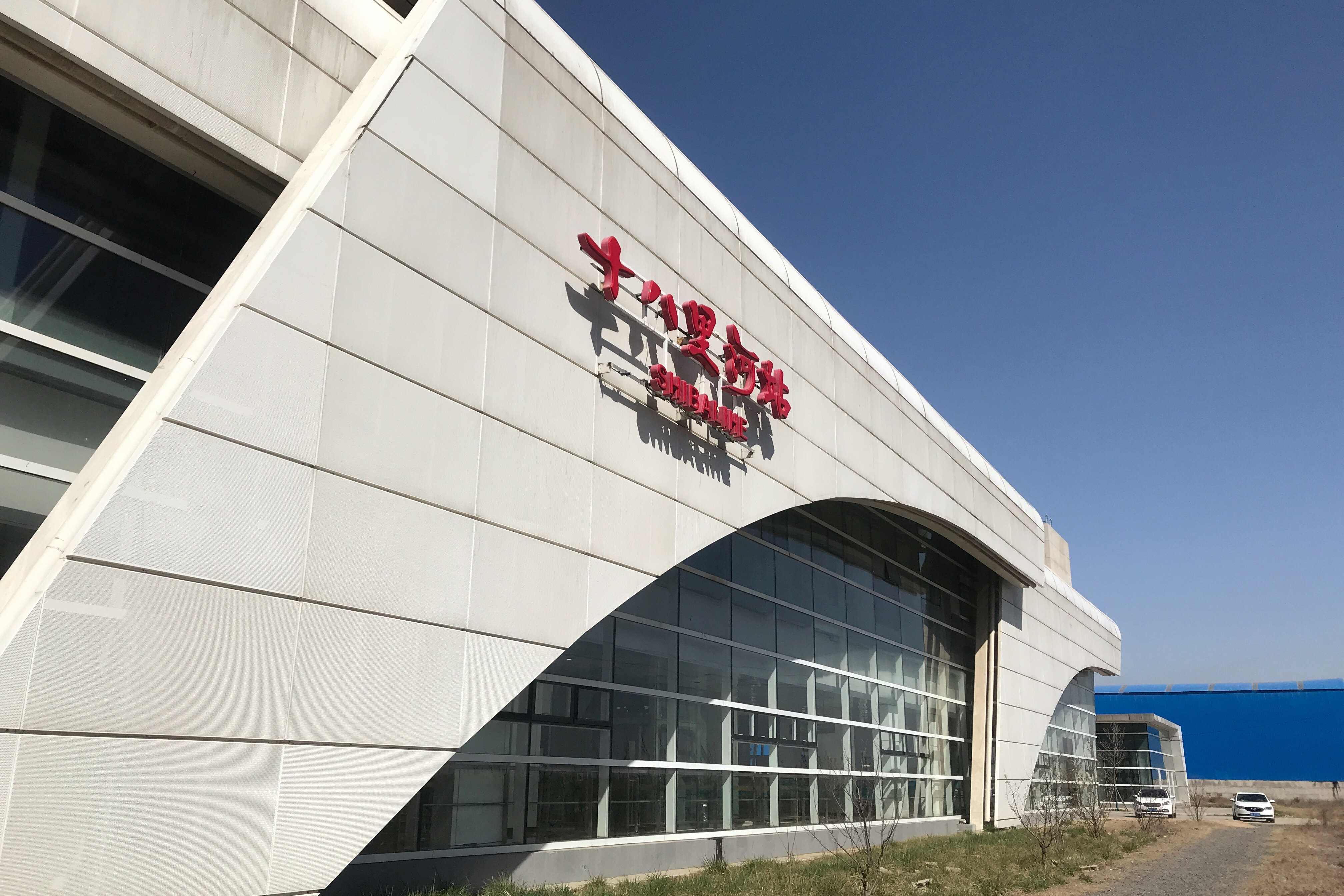 East facade of Shibalihe Station